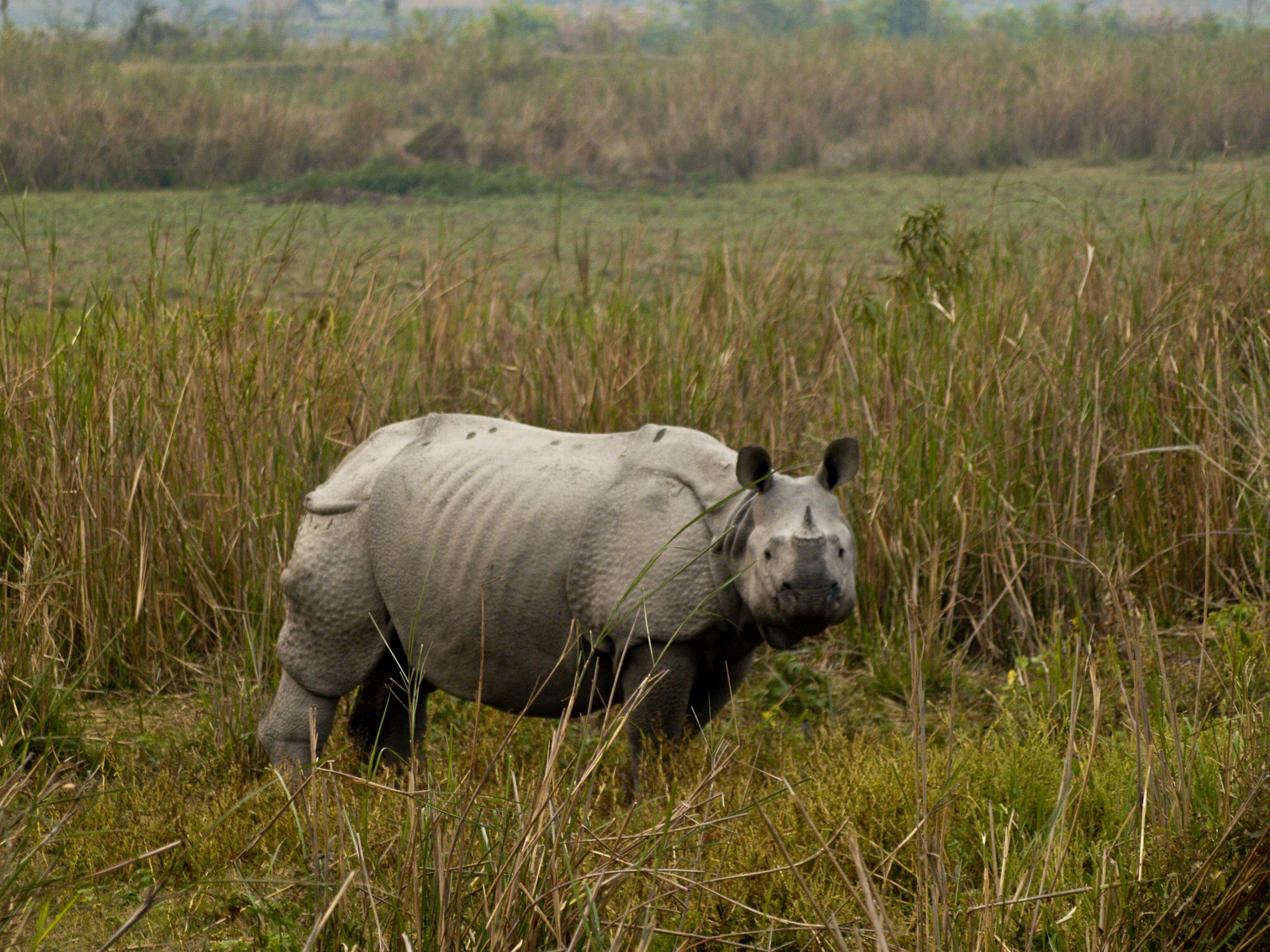 Rhinoceros (Rhinoceros unicornis) at Kaziranga National Park, India